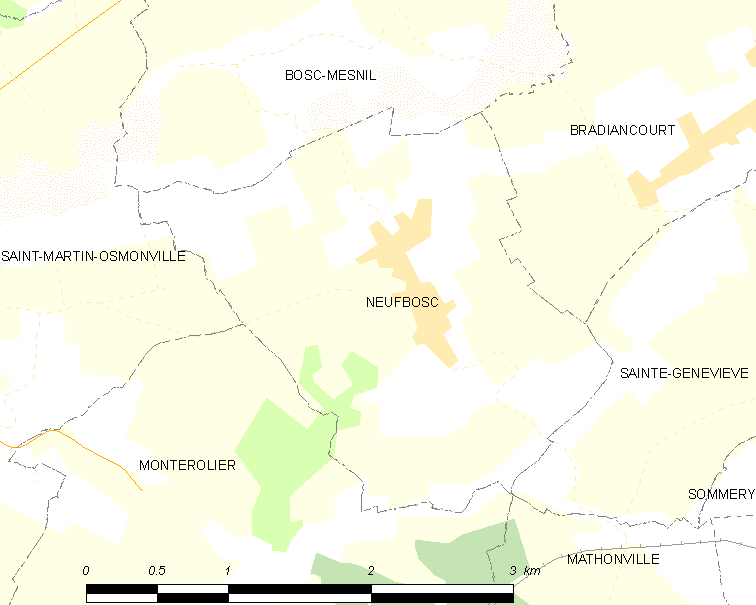 Map of French municipality Neufbosc